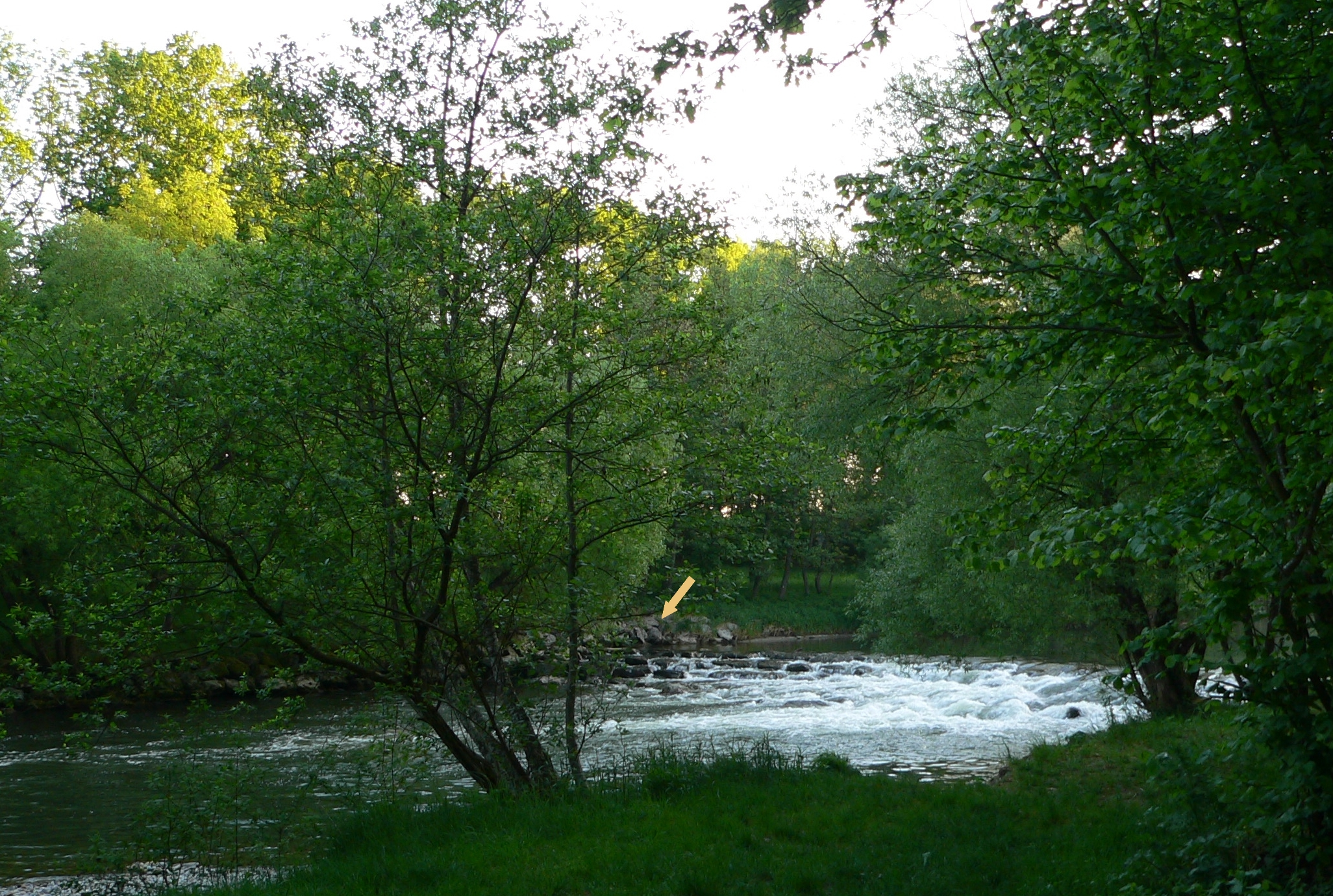 Cinclus c. aquaticus - habitat at river Argen in Baden-Württemberg Arrow: Nestsite